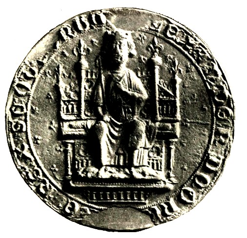 Alexander III of Scotland